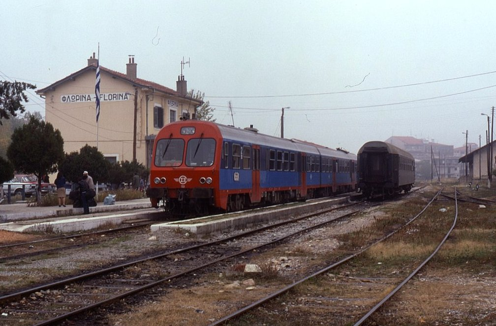 2-car DMUs delivered in 1990 for local and medium distance journeys. Seen at Flórina on 4 November 1992, 721 & 722 are on train 761, 10:45 Flórina to Thessaloniki.